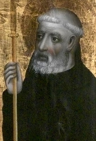 Saint Procopius of Bohemia from the Votive Painting of Archbishop John Očko of Vlašim.